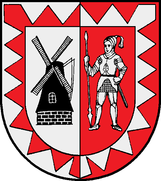 Coat of arms of the town (Stadt) Barmstedt in Schleswig-Holstein, Germany.